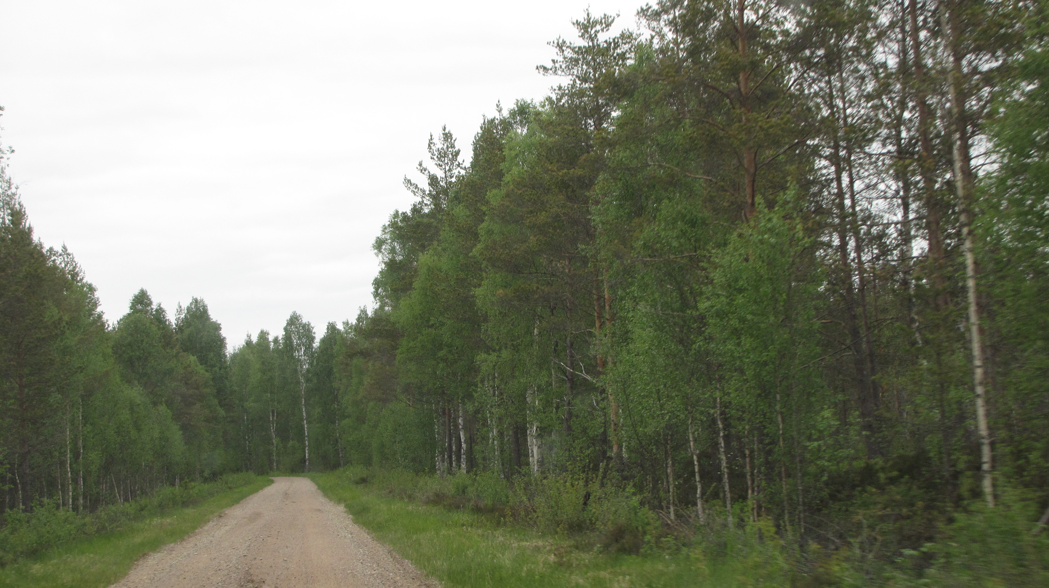 Gravel road in Alkkianneva bog, Karvia, Finland.